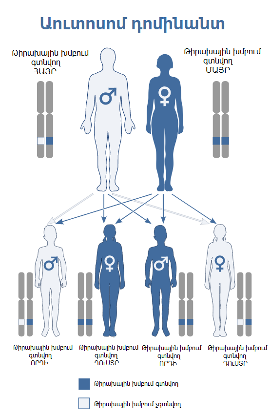 Autosomal recessive - mini (hy)